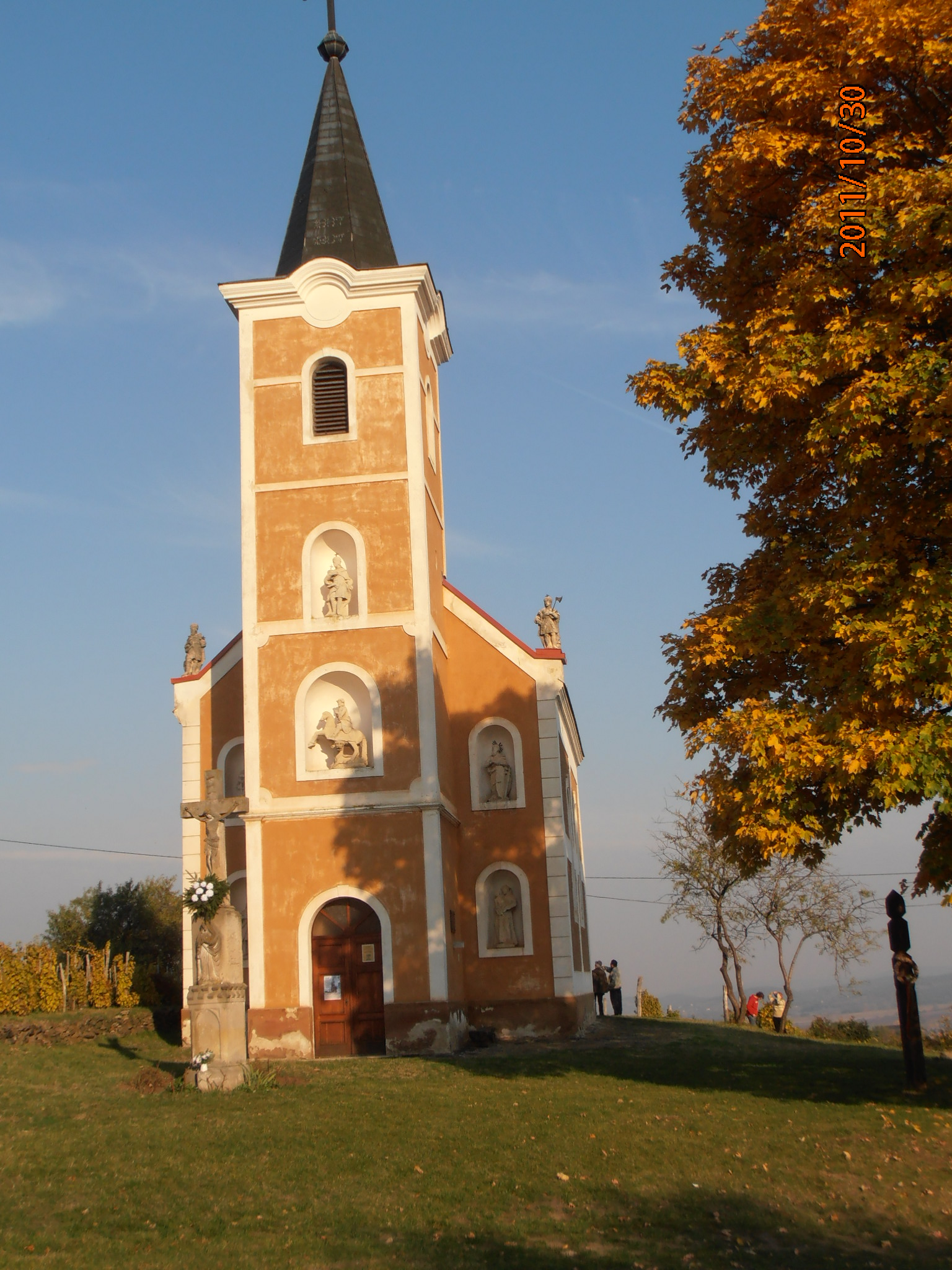 Lengyel Chapel on Szent György hill (Balaton-felvidék, Hungary)